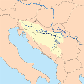 Sava River watershed